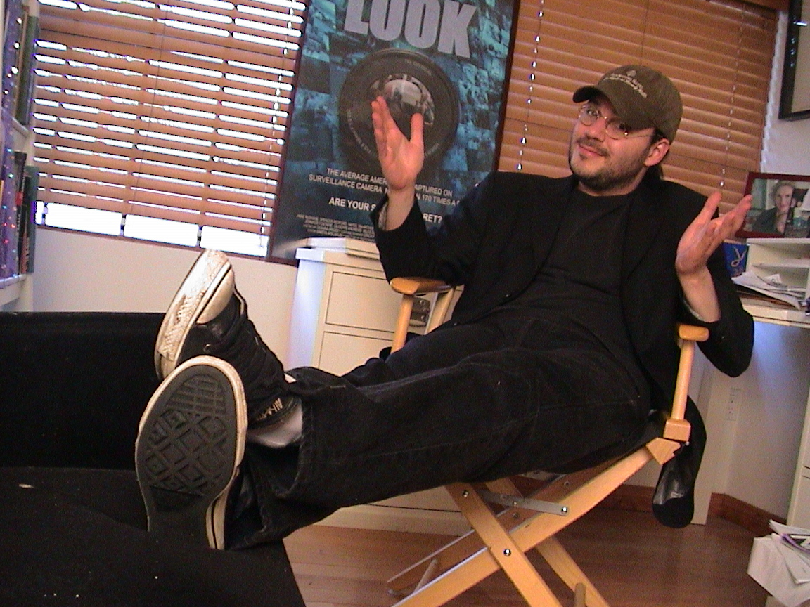 Picture of director Adam Rifkin